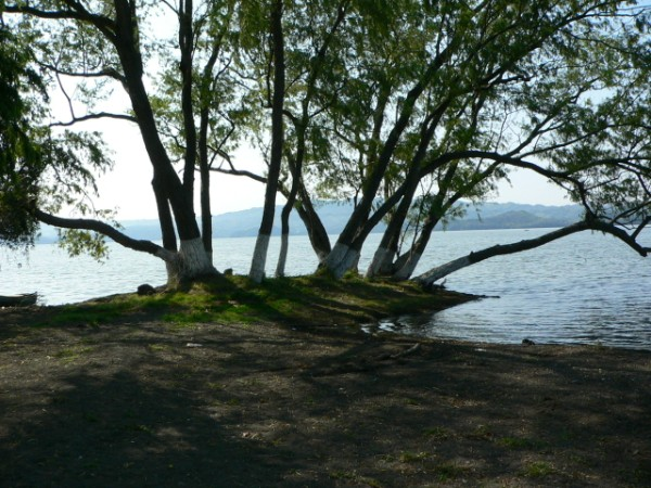 Laguna Catemaco Shore